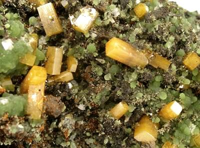 Wulfenite, Mimetite Locality: San Juan Poniente, Ojuela Mine, Mapimí, Municipio de Mapimí, Durango, Mexico (Locality at ) Size: 8.9 x 6.8 x 3.9 cm. A striking specimen with lustrous, pseudocubic, butterscotch-colored wulfenite crystals scattered on a very sturdy, 3-dimensional gossan matrix and beautifully complimented by botryoidal green mimetite from a new find at the Mina Ojuela at Mapimi, Mexico. The largest wulfenite crystals (2) are 8 mm and they are doubly terminated. This fine piece has very few broken crystals and there even little, white calcite rhombs as a very nice accent. This is a new find, from just before the 2008 Denver Show. The exact mine location is Level 6, San Juan Poniente vein.